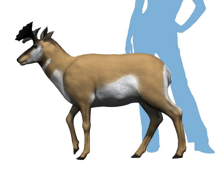 Life restoration of Merriamoceros coronatus.